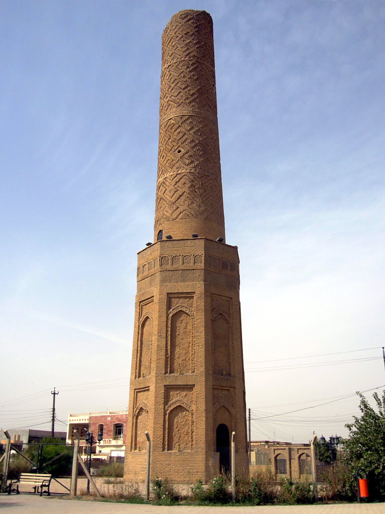 The Sheikh Chooli Minaret in Erbil was built between 1190 and 1232 by Sultan Mudhaffarudeen and dates back to the early Islamic era. The spiral minaret is 21.5m high with splendid Kufic calilgraphy and the inscribed names of the Prophet. The minaret is the focal point for the recently developed Minara Park.